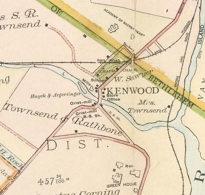 Map of Kenwood, NY; today split between the city of Albany and the town of Bethlehem.